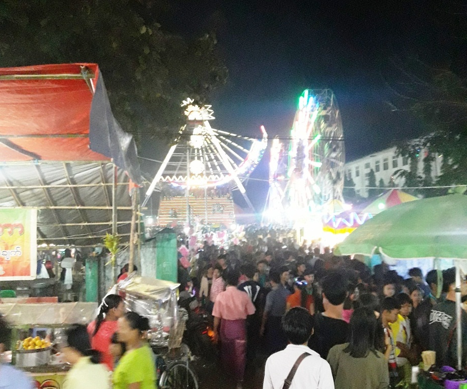 Shwesandaw Pagoda festival in Pyay, Myanmar Pagoda festivals (Burmese: ဘုရားပွဲ) are regular festivals found throughout Burma (Myanmar) that commemorate major events in pagoda's history, including the founding of a pagoda and the crowning of the pagoda's hti (umbrella). Pagoda festivals are dictated by the Burmese religious calendar and often are held several days at a time. During pagoda festivals, temporary bazaars (including food stalls and merchandise stands), entertainment venues (including anyeint dramas, yoke the performances, lethwei matches and arcades) are set up in the vicinity of the pagoda.